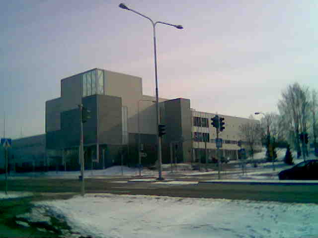 The city hall of Mäntsälä, Finland.